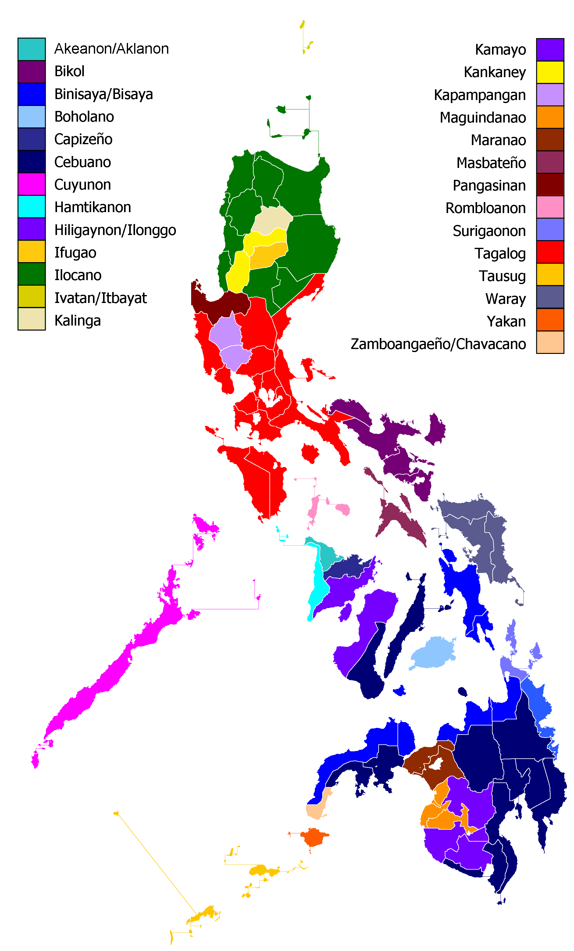 Map of the Ethnic groups in the Philippines — by majority group per Philippine province. The color of the province denotes the largest ethnic group within that province, according to the 2000 census. Source: .ph